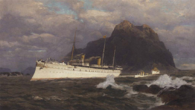 Carl Saltzmann: The Kaiser's yacht "Hohenzollern"(II) under escort on a summer cruise in northern waters, 1904, Oil on Canvas, 27,5 x 47,2 in. / 69,8 x 120 cm.